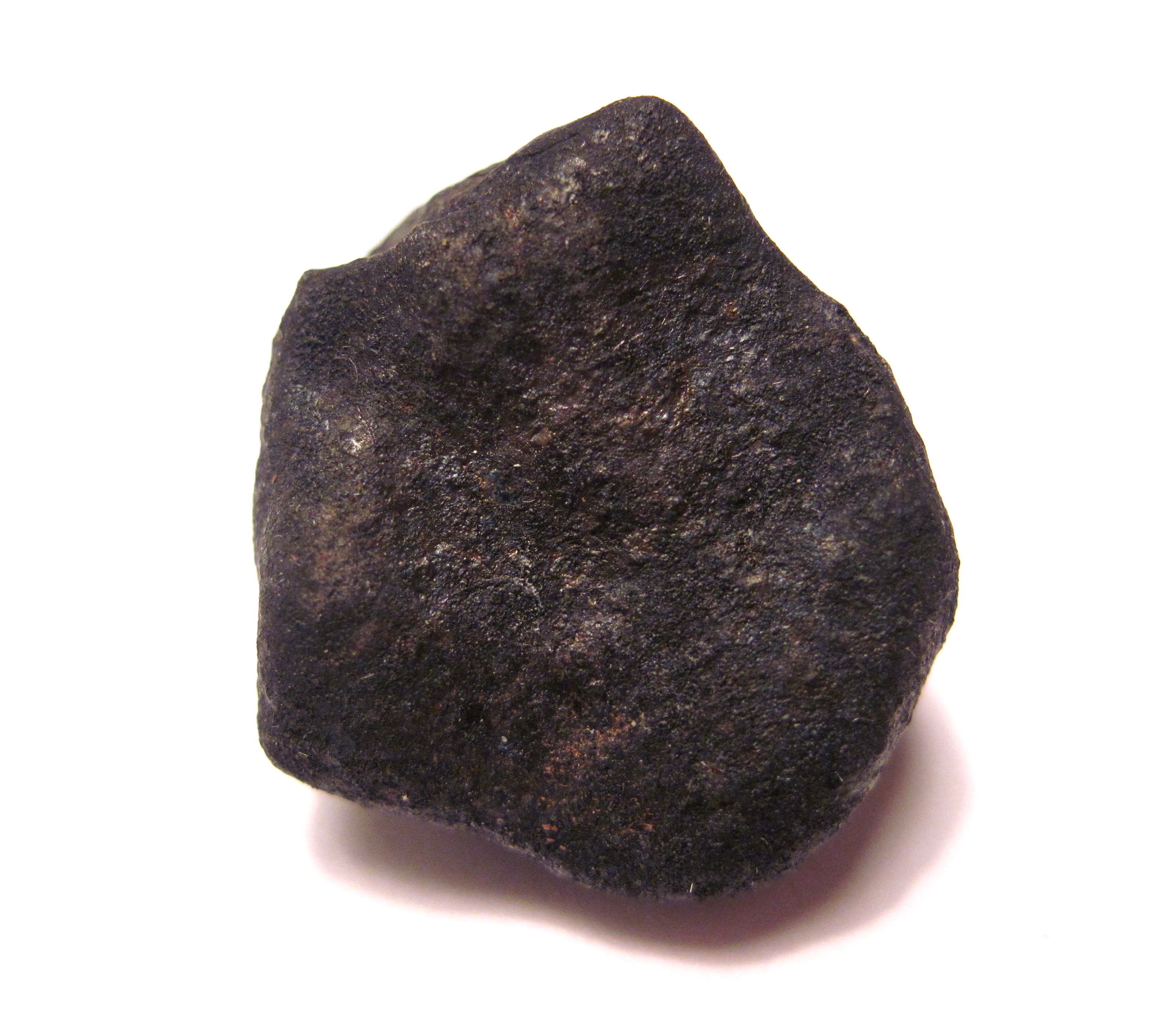 Alternate view of the 8.03 gram Kosice individual against light background which brings out the rich black fusion crust.